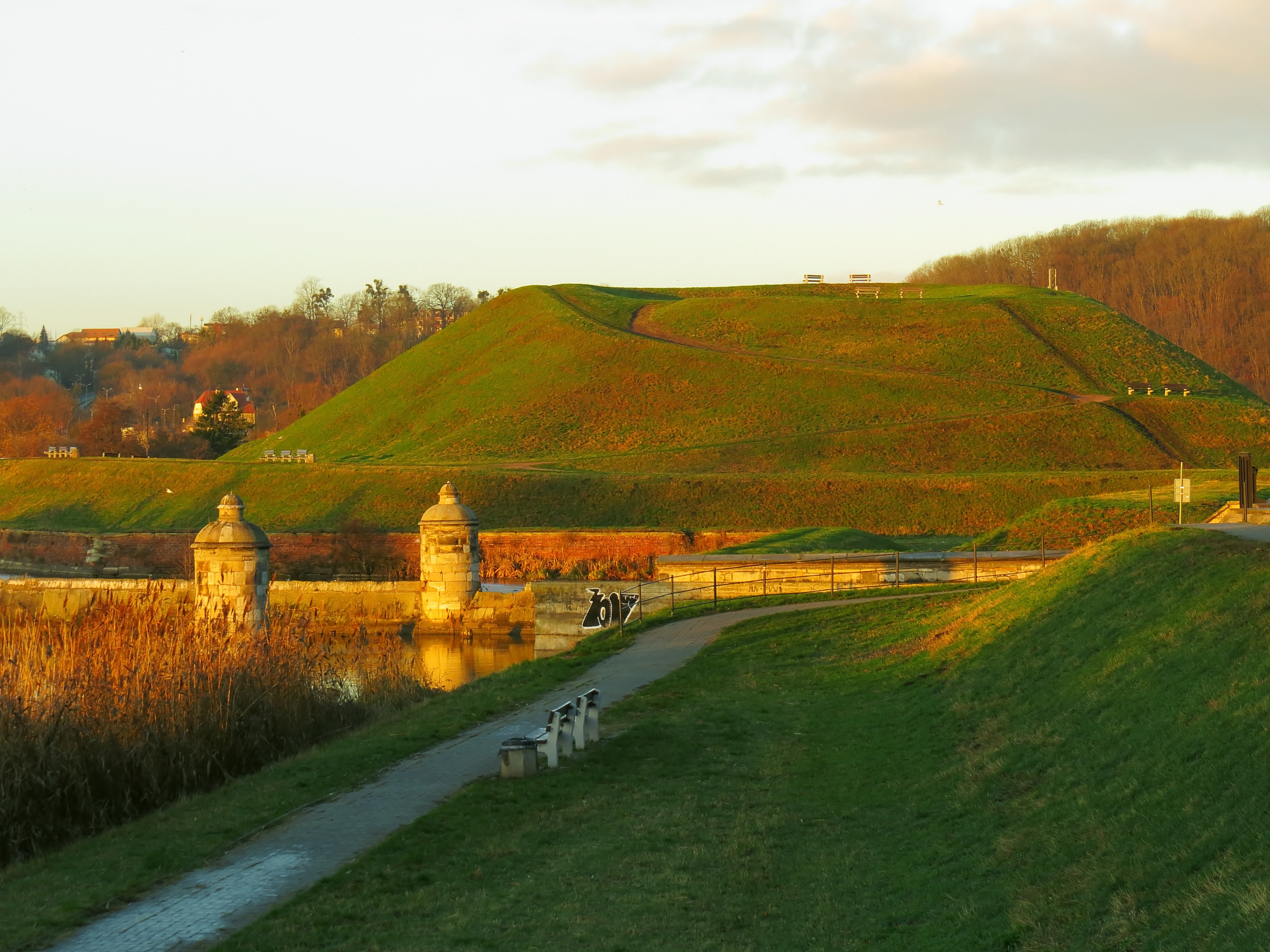 Bastion Żubr and Stone Lock in Gdańsk